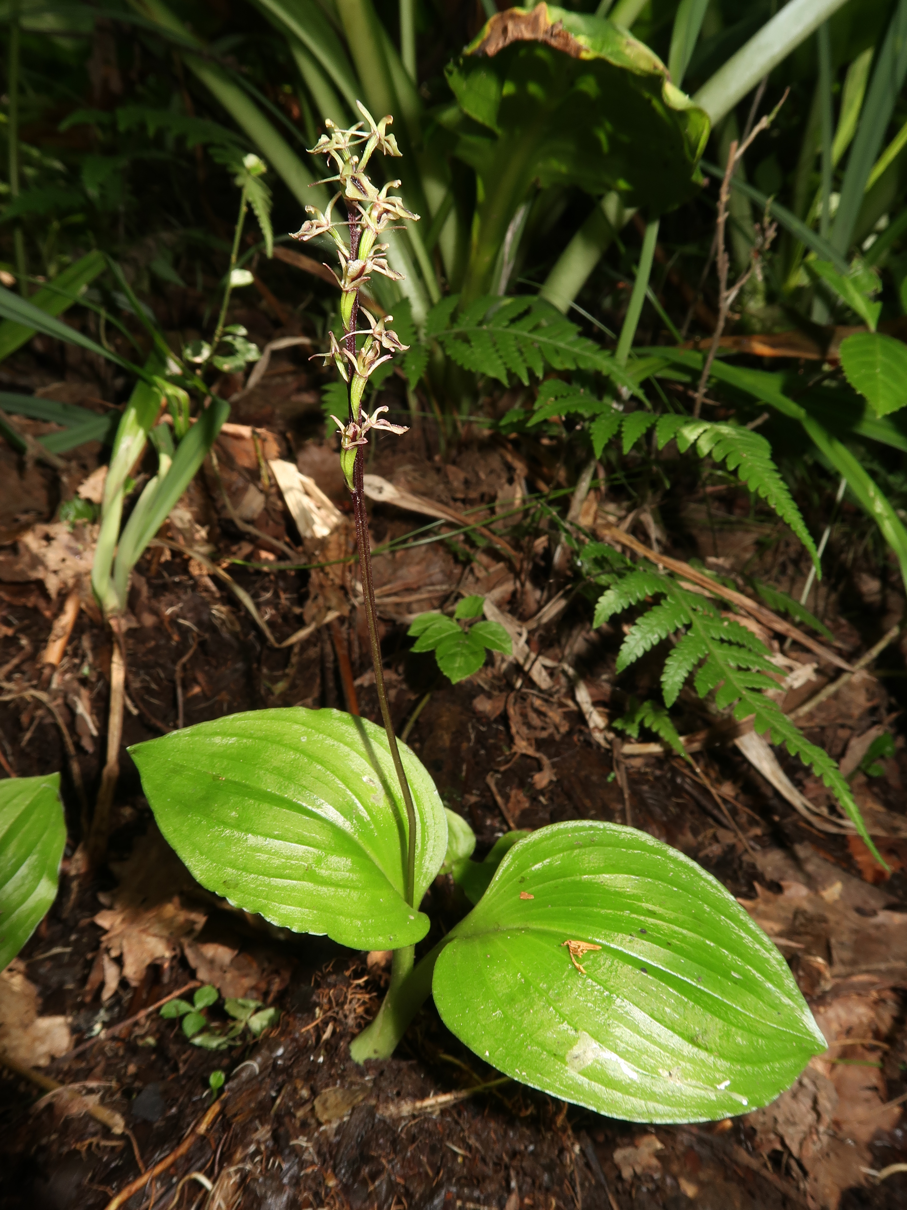 Liparis auriculata, Aizu area, Fukushima pref., Japan